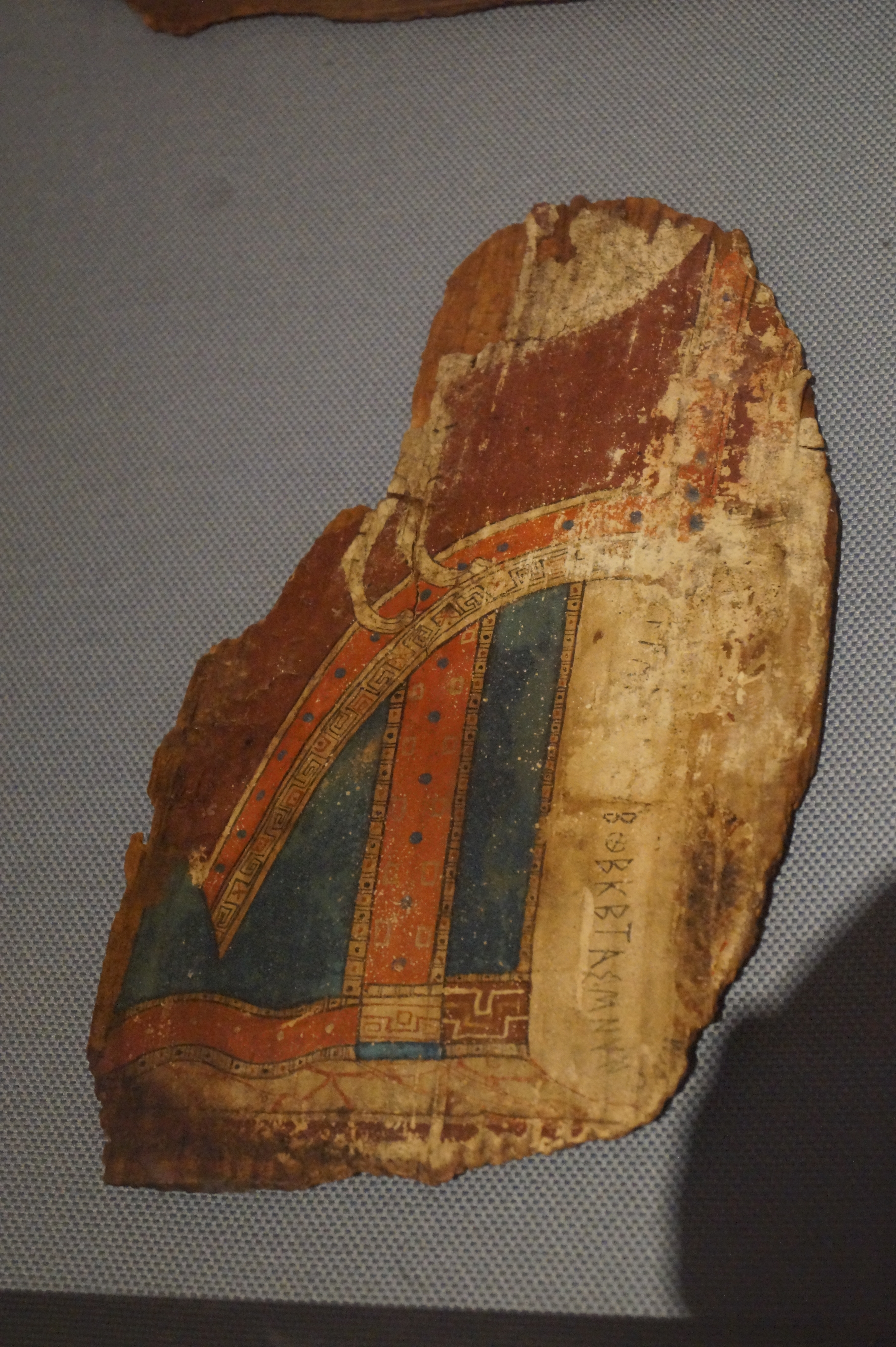 National Archaeological Museum of Athens: Pitsa panel (NAMA 16465)